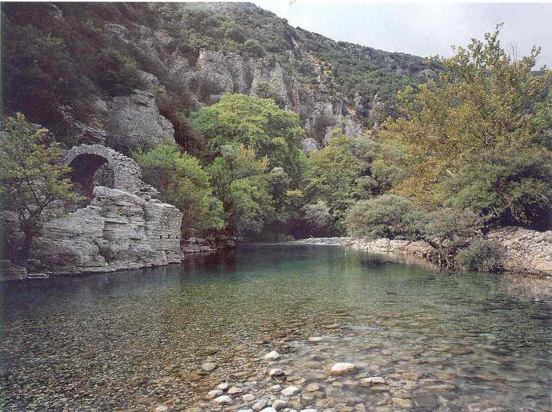 Voidomatis river in Vikos-Aoos National Park